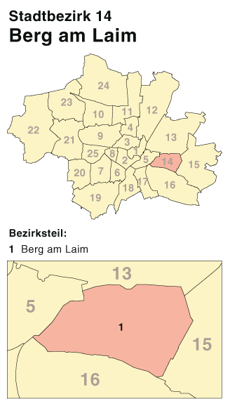 Boroughs of Munich map series